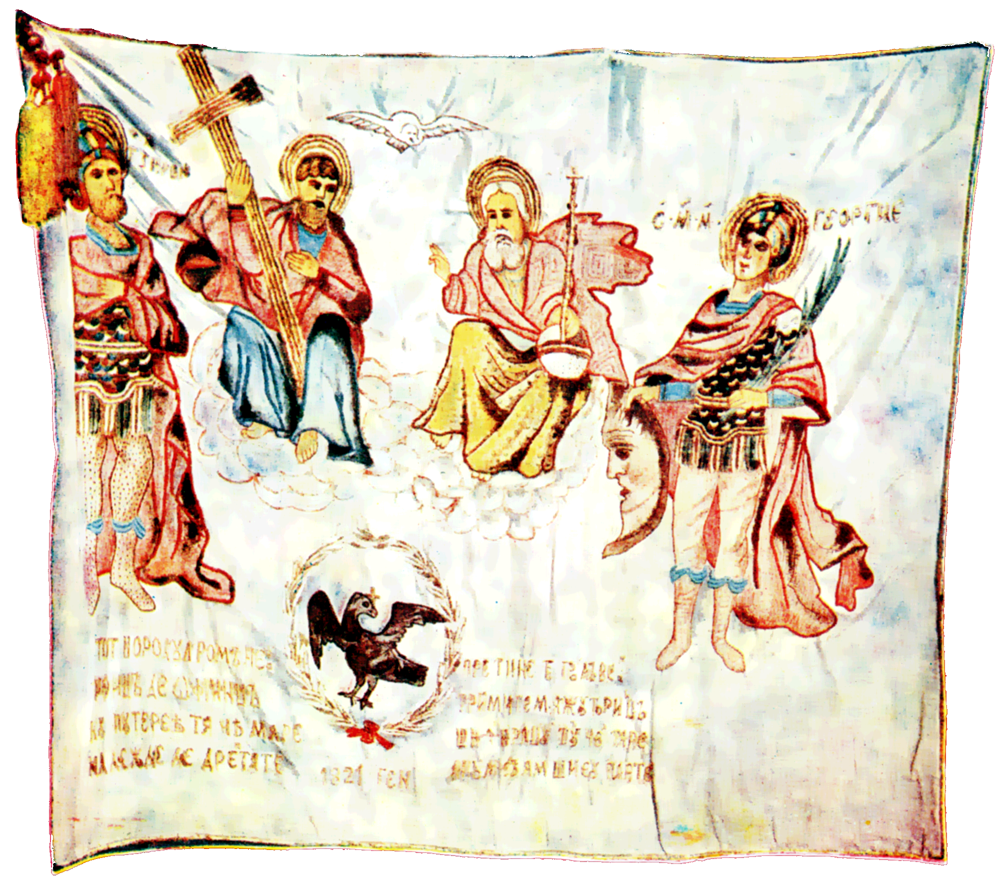 Flag of the Revolution of Tudor Vladimirescu (reconstitution)